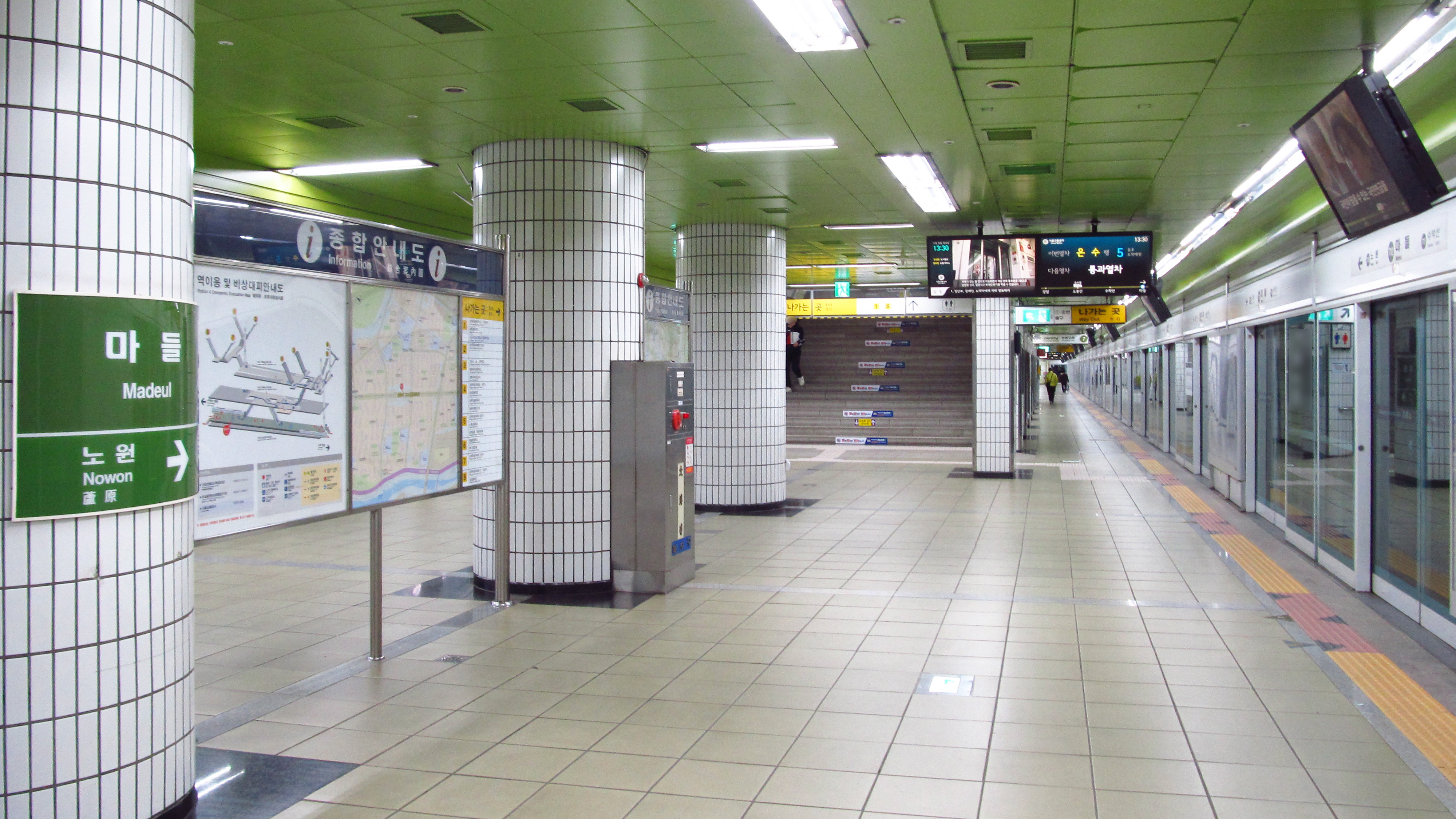 The platform at Madeul Station on Seoul Subway Line 7 in Nowon-gu, Seoul, Republic of Korea(South Korea)